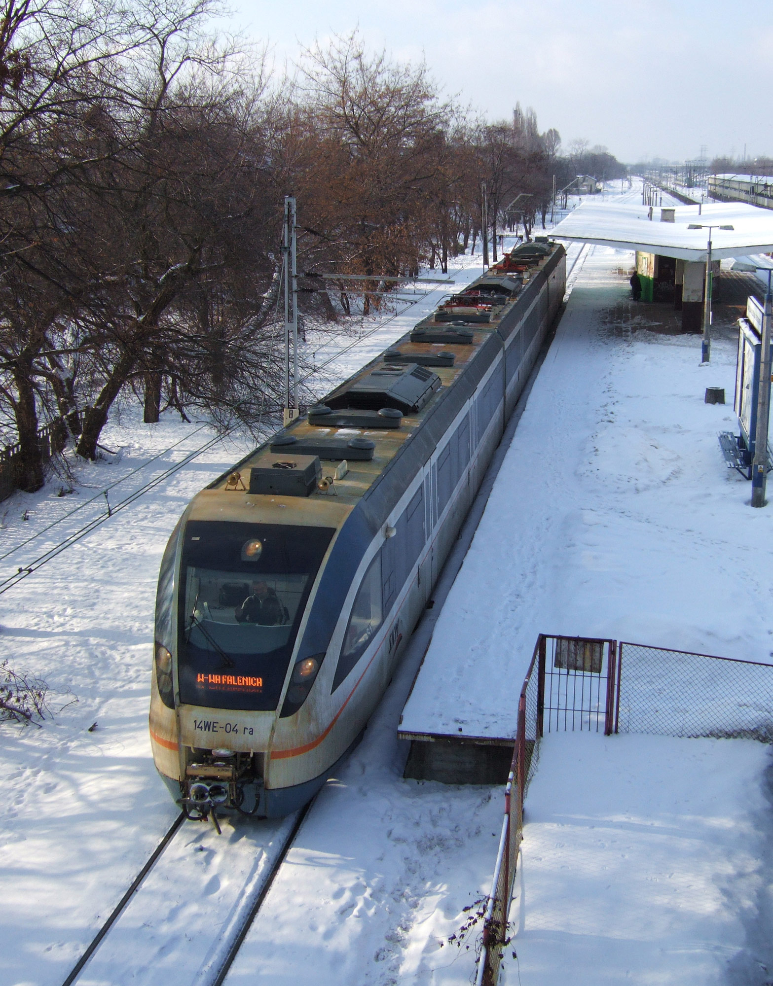 Polish electric multiple unit 14WE-04.